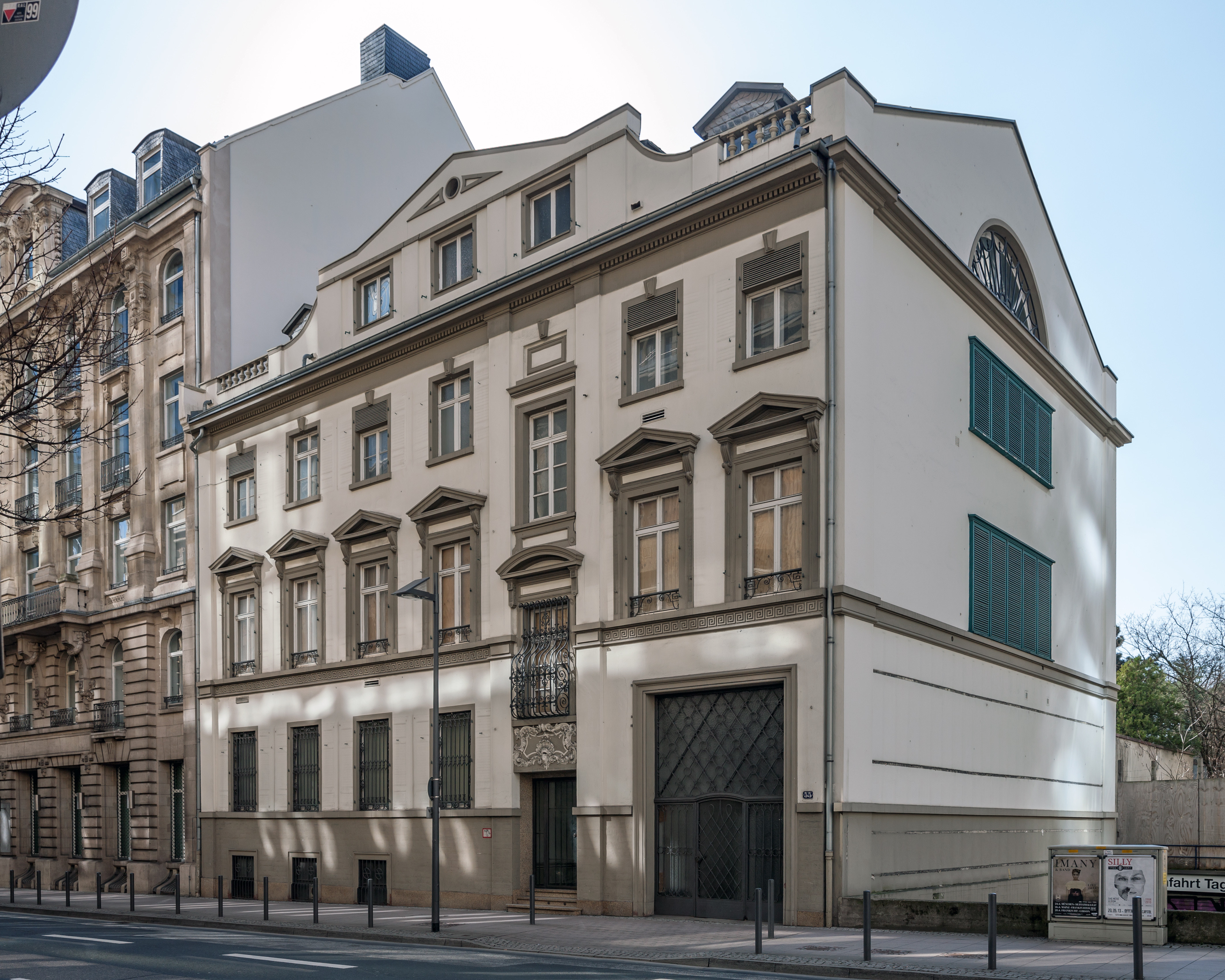 Frankfurt on the Main: Neue Mainzer Straße (New Mainz Street) 55 as seen from the northeast